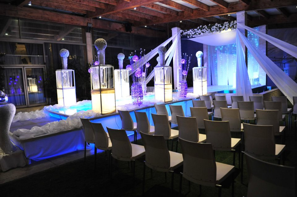 Geography of Israel